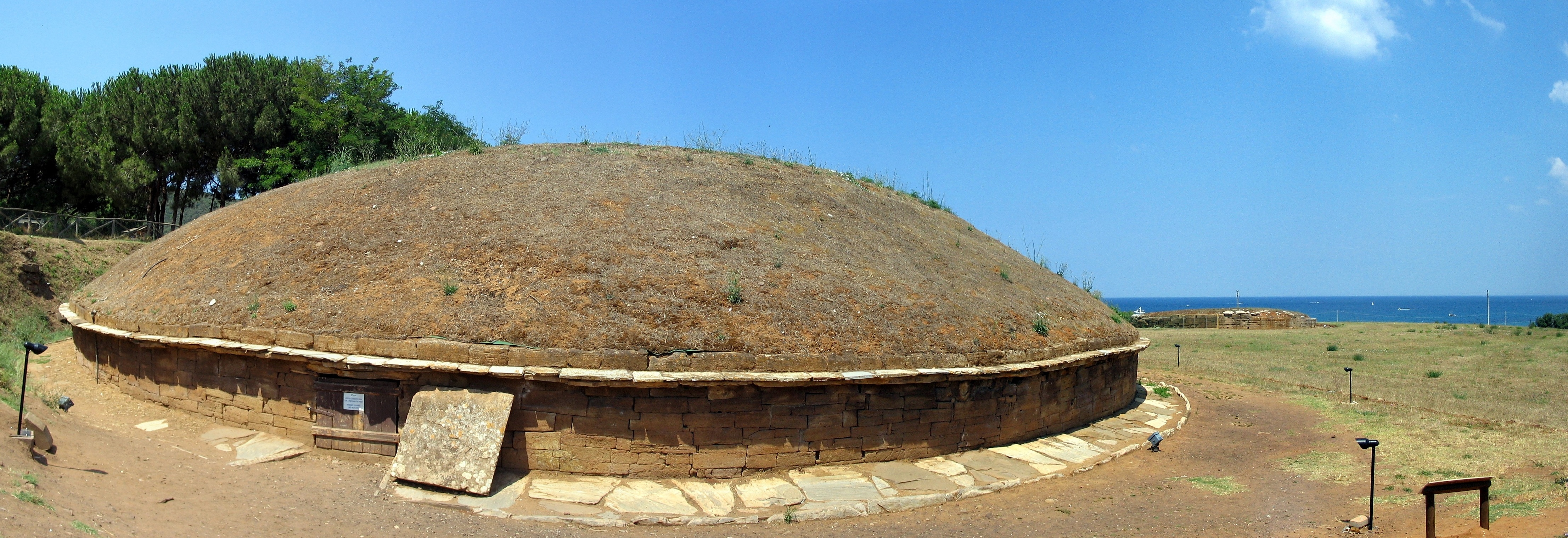 Populonia, Italy — "Tumulo" (mound) Etruscan tomb, known as "tomba dei carri".